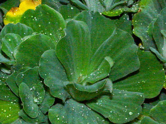 Species: Pistia stratiotes Family: Araceae Image No. 1